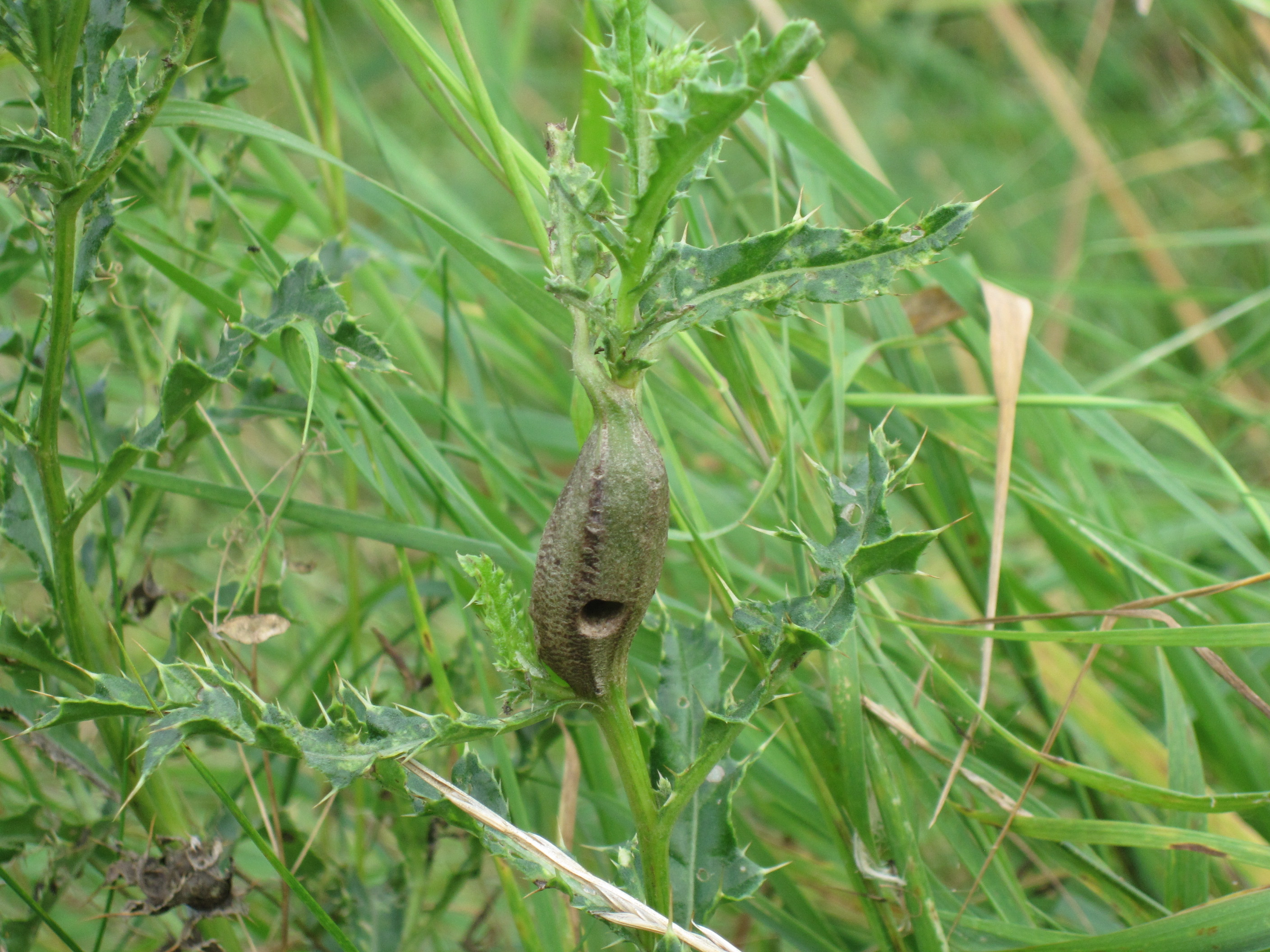 Urophora cardui (Thistle Gall Fly) gall, induced in Cirsium arvense (Creeping Thistle), Arnhem, the Netherlands